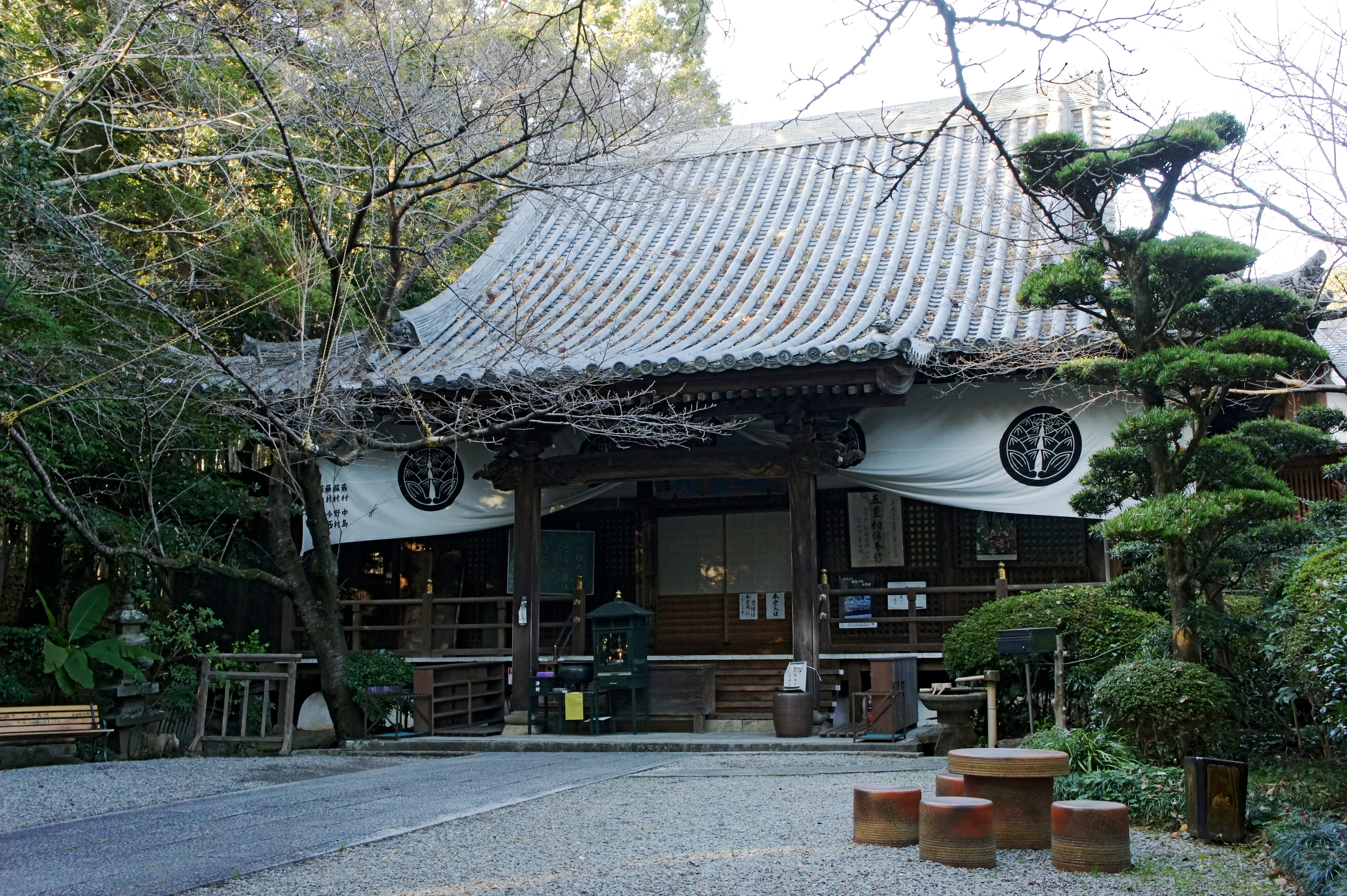 Kichiden-ji is a Buddhist temple in Ikaruga, Nara prefecture, Japan.